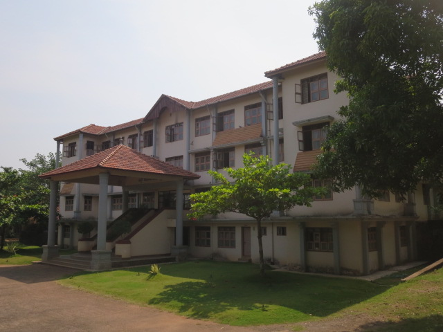 siddavana gurukula in ujire